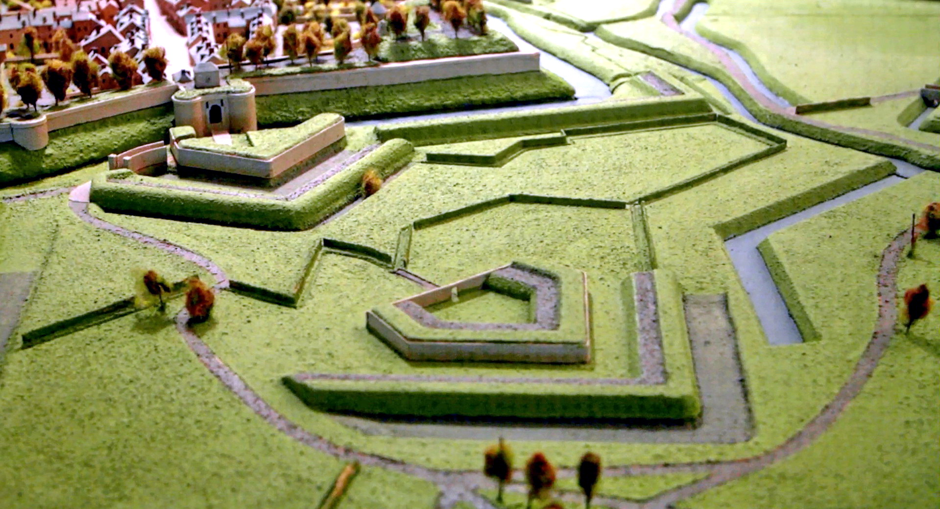 Detail of the copy of the French Maquette of Maastricht on display in Centre Céramique, Maastricht, the Netherlands. The copy was made in 1974-1982, based on the mid-18th-century scale model made for King Louis XV of France. This section shows the southwestern city wall around Tongersepoort (Tongres gate) with ravelin and couvre-face. In the foreground is Waldeck bastion, which has escaped demolition and is now part of Waldeckpark.